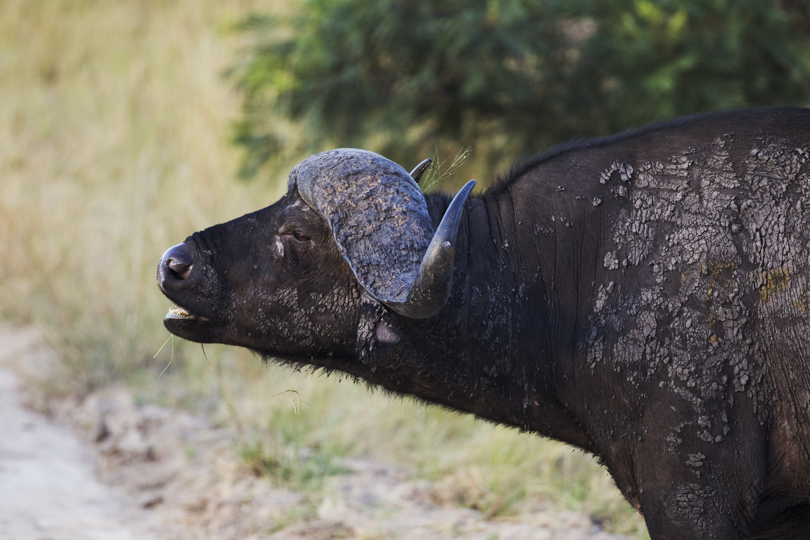 African buffalo in Kruger National Park, South Africa